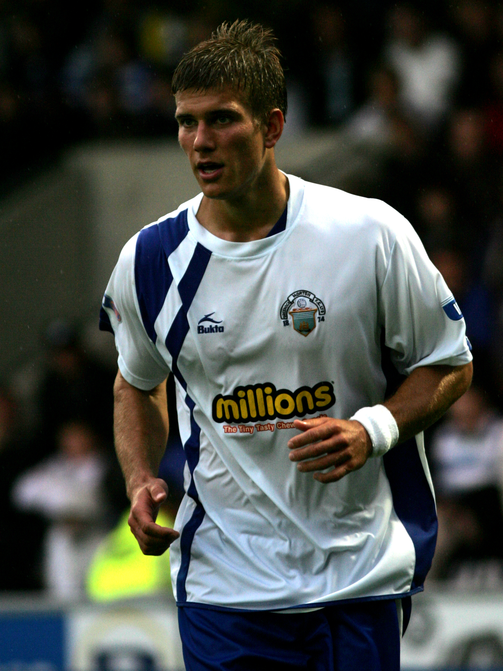 Greenock Morton (1) vs (2) St Mirren - Renfrewshire Cup Final 09'